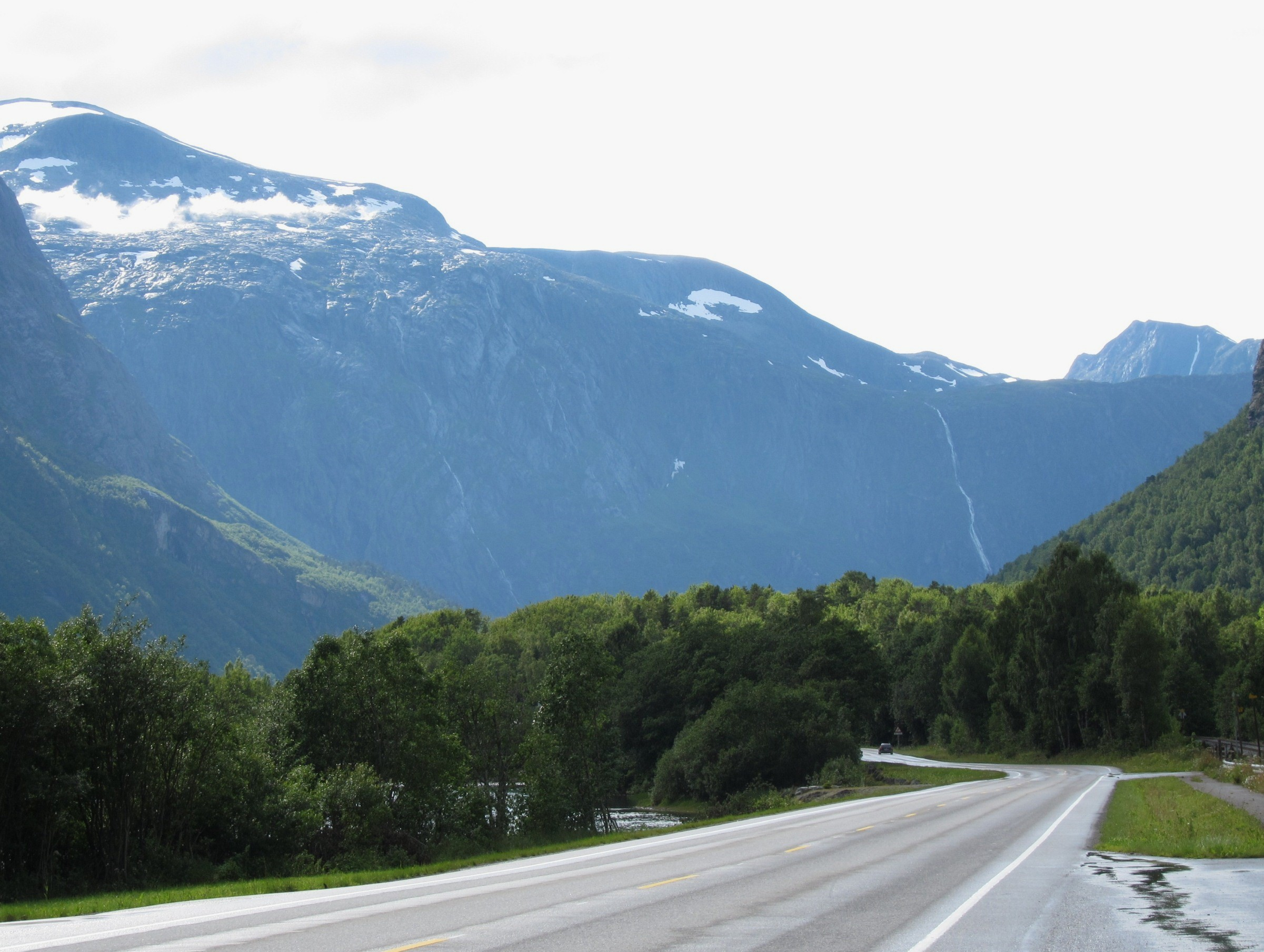 Road E136, Romsdalen, Norway. Ølmåafossen waterfall in the distance (right of centre)